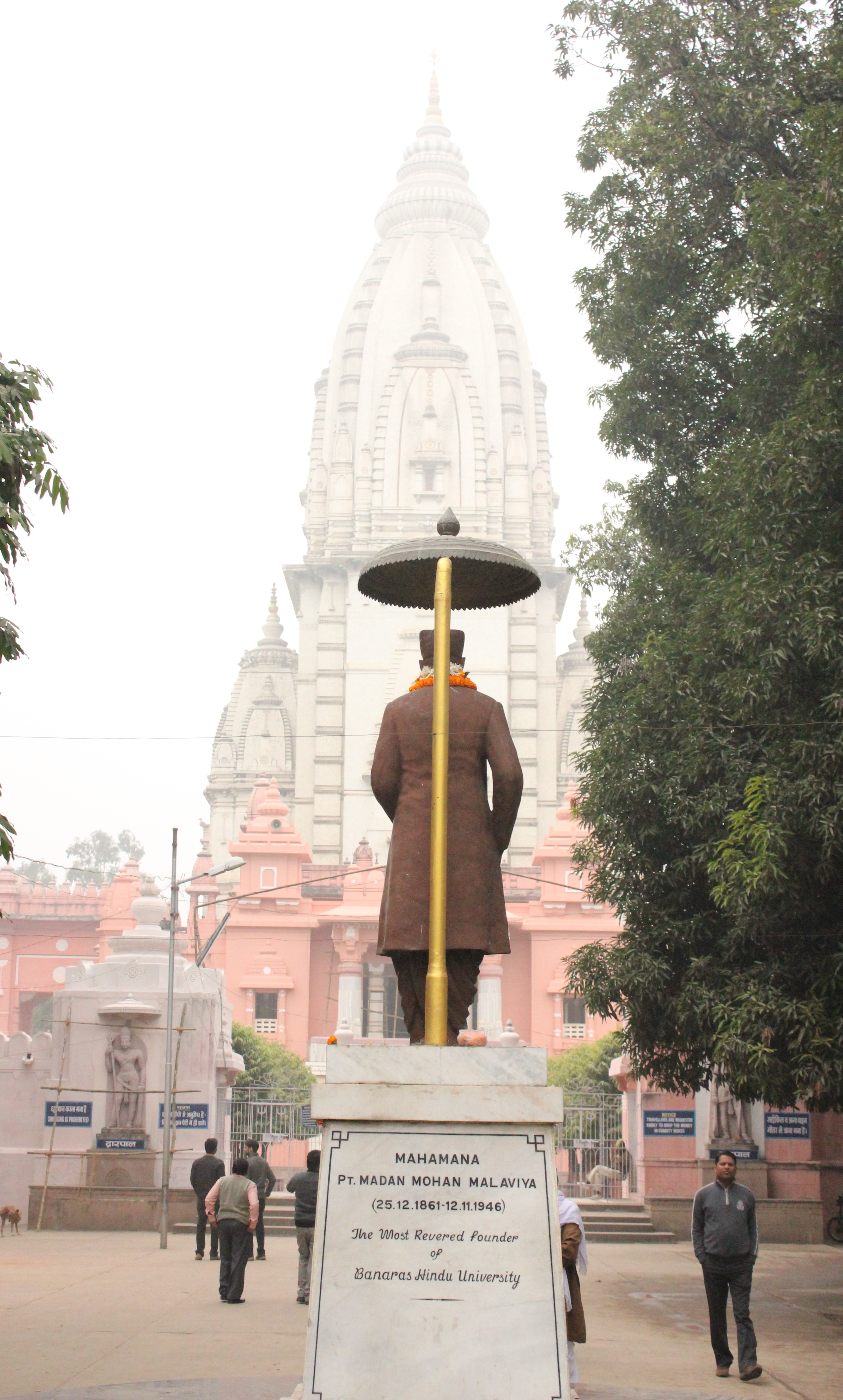 Picture of Shri Kashi Vishwanath Mandir, BHU from East side